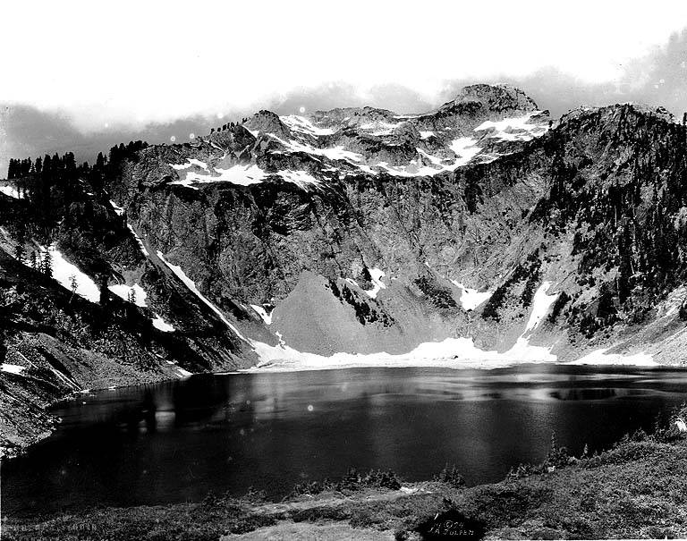 In the vicinity of Monte Cristo. Caption on image: Juleen Studio Everett Washington c1924 J.A. Juleen On verso of image: Silver Lake above Monte Cristo Silvertip Peak beyond PH Coll 1470.2 Subjects (LCSH): Silver Lake (Wash.); Lakes--Washington (State); Cascade Range; Mountains--Washington (State)